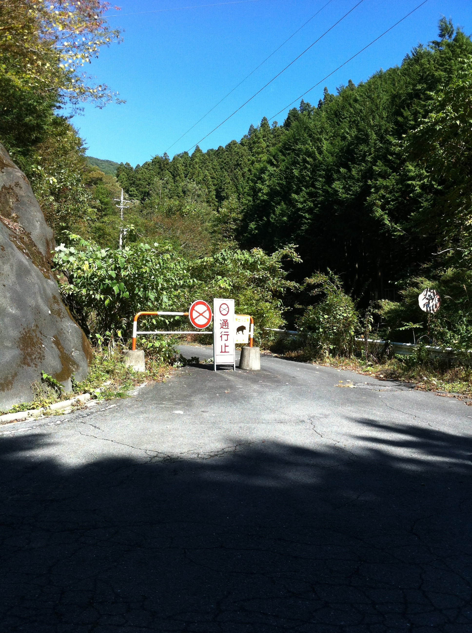 The Saitama Prefectural Road Route 73 in Urayama, Chichibu City